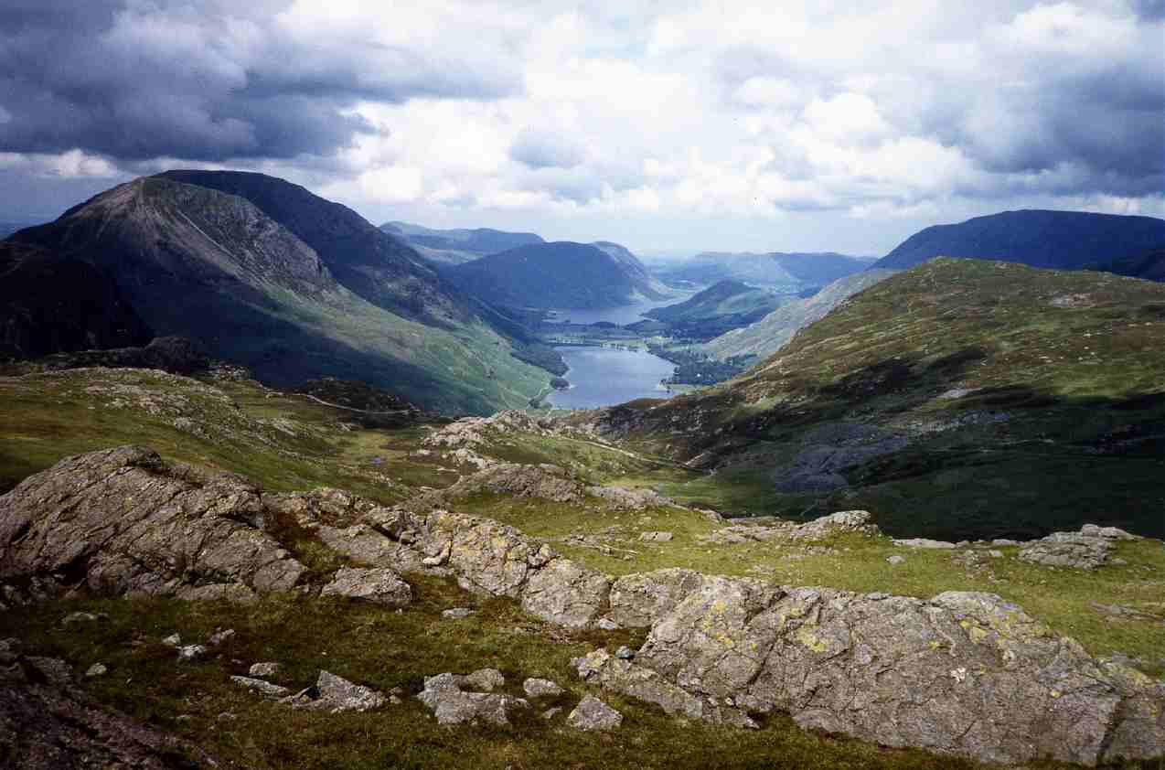 The Buttermere valley from Grey Knotts. Personal photograph taken by Mick Knapton